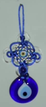 A talisman including nazan boncugu motives (that protects from the evil eye), to be hung on the wall. Bought in Turkey, 2005. Self-made photo by Timea Baksa.